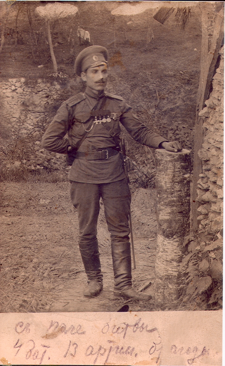 This photo of Panteley Fedorovich Belochub was sent as a postcard to his family in Stary Krym, Ekaterinoslav Province, Russian Empire. It is dated on the reverse as June 9, 1916. Panteley's unit is indicated on the front as the 4th battery, 13th artillery brigade.